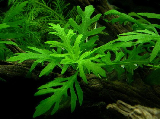 Hygrophila difformis, commonly called water wisteria, is a popular and unproblematic aquarium plant.